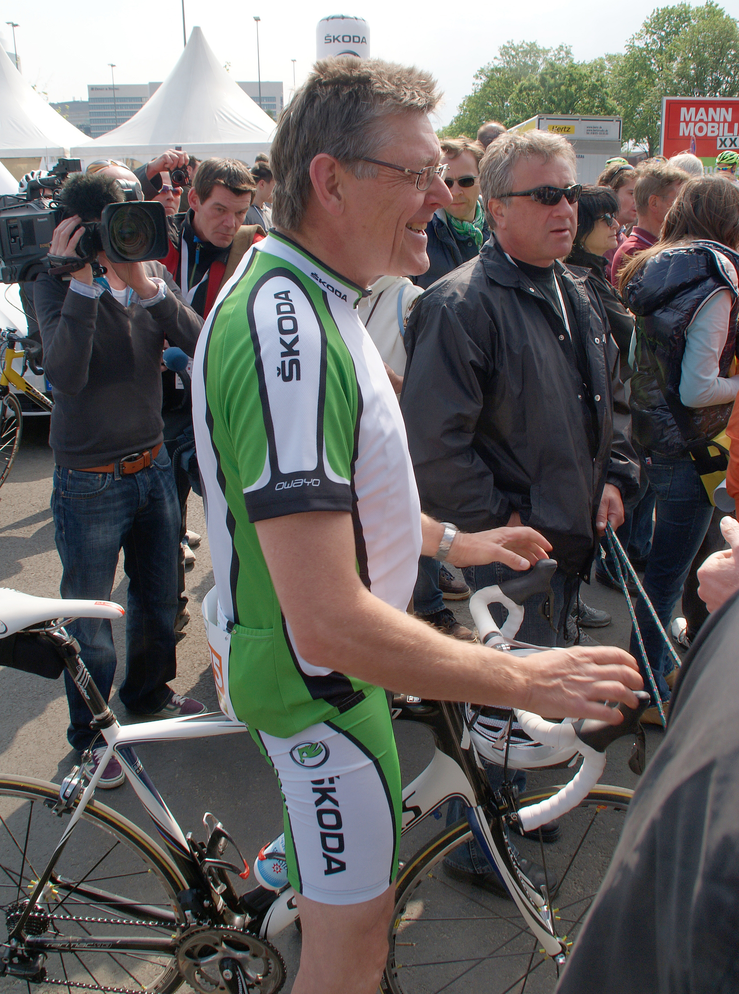 Hans-Michael Holczer as a guest on Eschborn-Frankfurt City Loop 2011